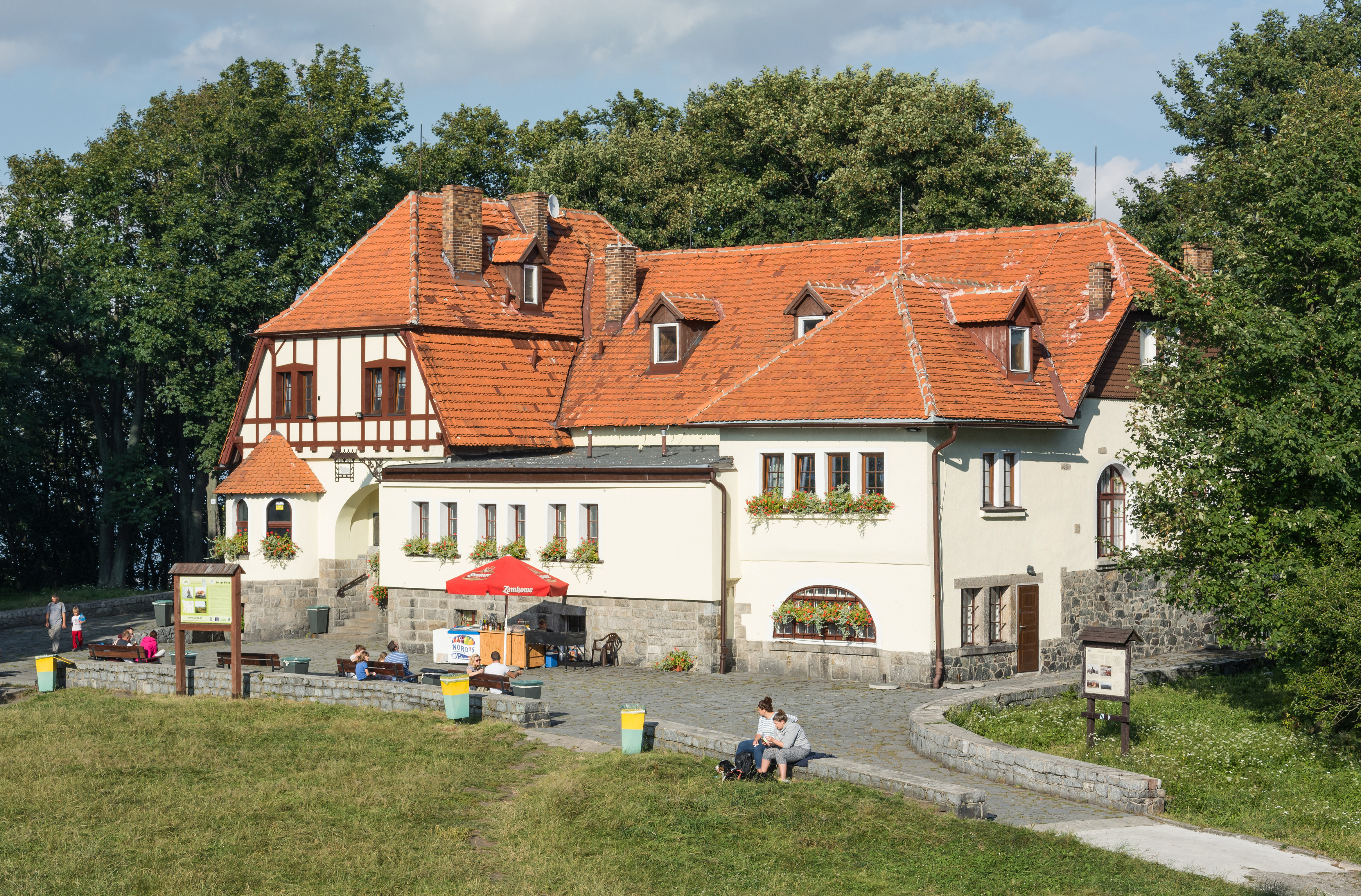 Roman Zmorski Mountain Hut in Sobótka